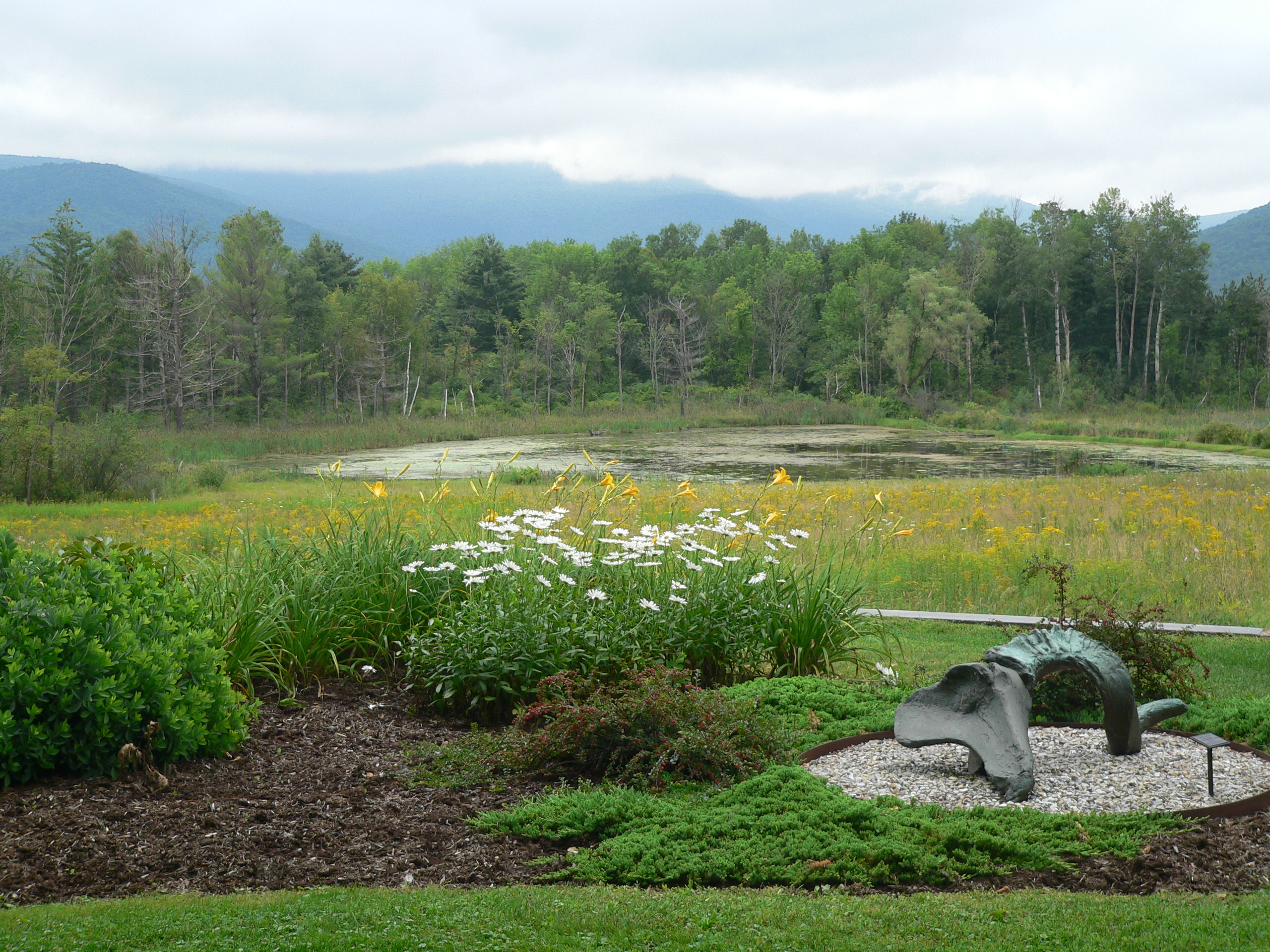 Sculpture and pond at Field Farm in Williamstown, Mass